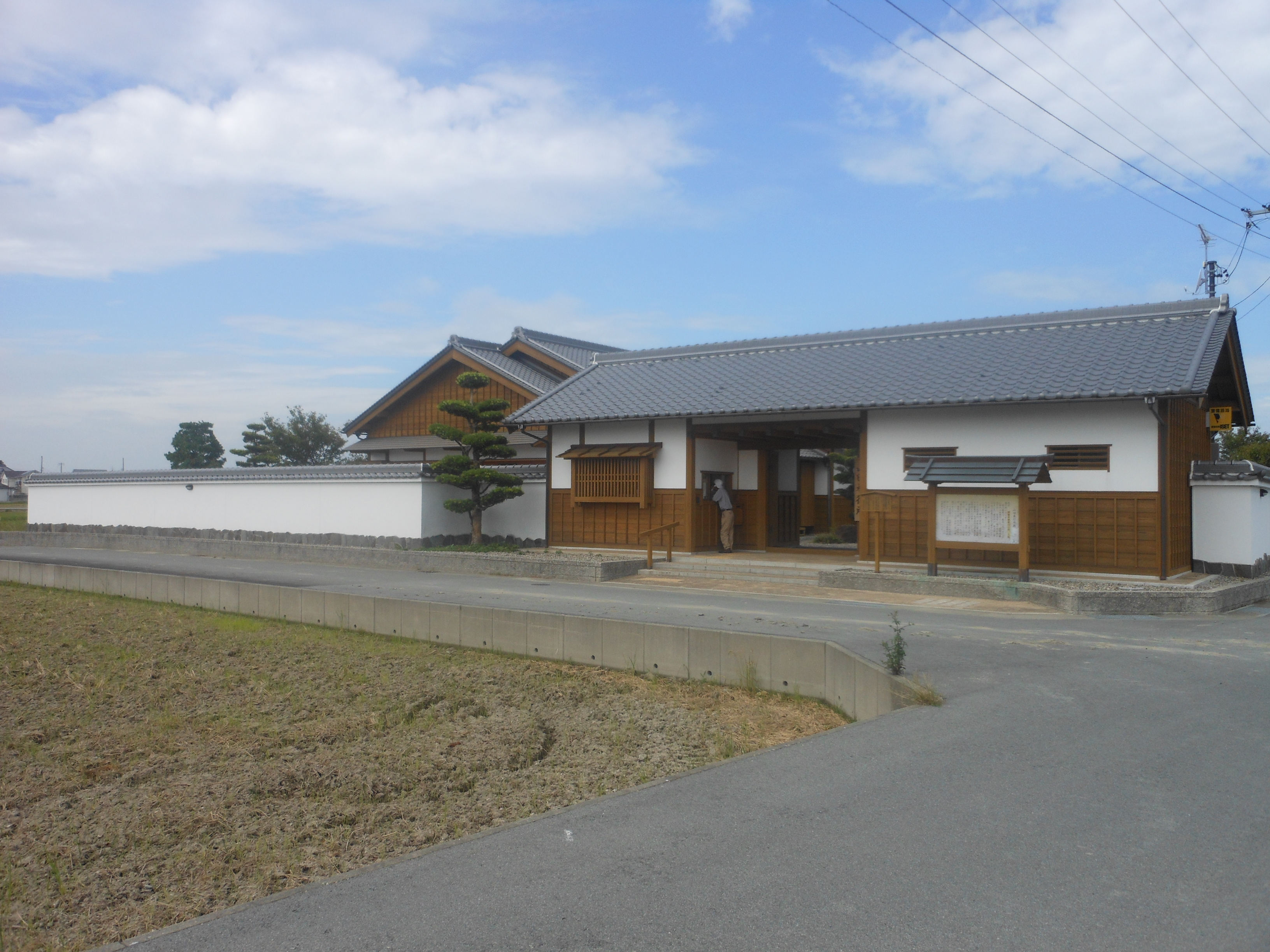 This is the Yamada Bugyosho Memorial, which is located in Ise, Mie, Japan.